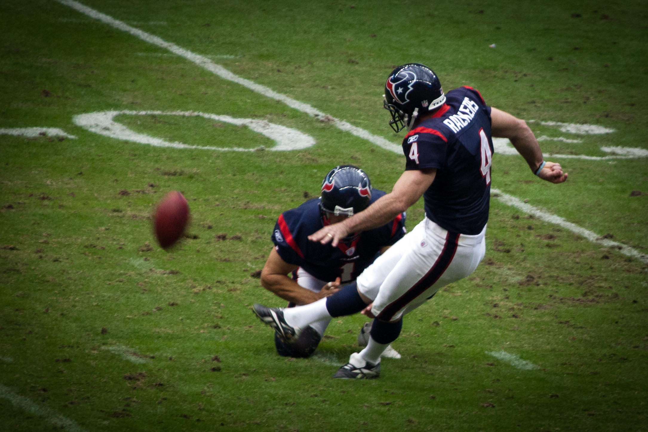 Houston Texans vs Tennessee Titans January 1, 2012